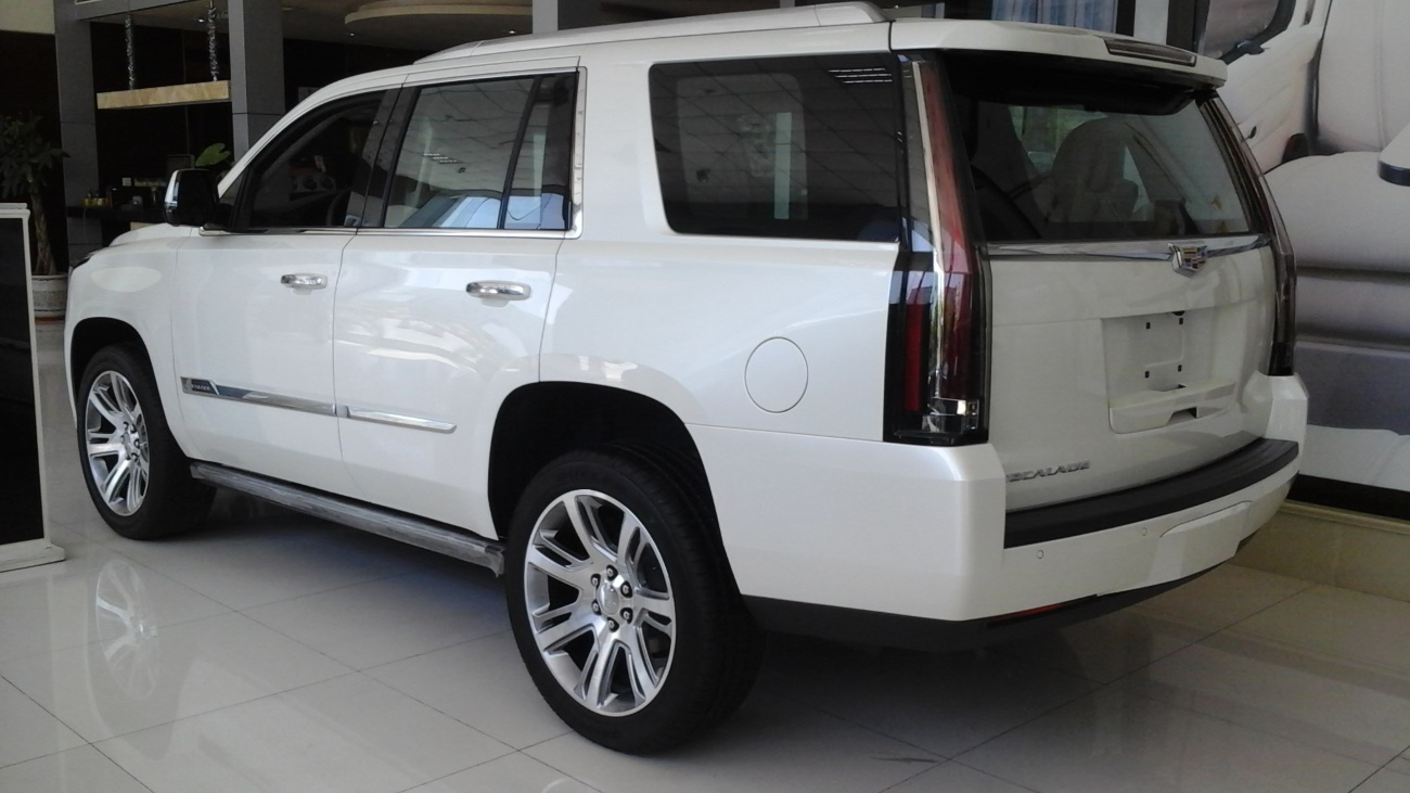 Cadillac Escalade IV photographed in Shanghai, China.